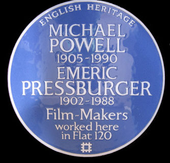 English Heritage Blue Plaque to commemorate Powell and Pressburger